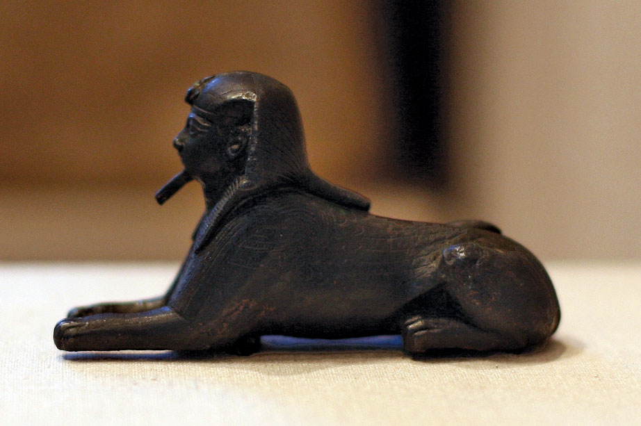 Sphinx of King Sheshonk, bronze figure from Egypt, c. 945–718 bce; in the Brooklyn Museum, New York. 3.4 × 6.8 cm.